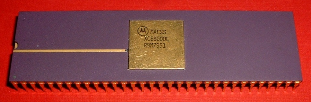 from en.wikipedia Motorola 68000 microprocessor, pre-release version XC68000L with R9M mask, manufactured in December 1979. As with most integrated circuit packages of the era, the pins are spaced 0.1 inch apart. This chip was used by Automatix to develop its first machine vision system, the Autovision I. I took this photograph of an artifact in my possession.--agr 19:29, 15 Nov 2004 (UTC)